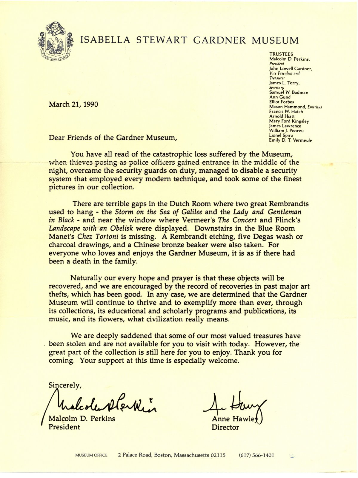 Announcement on stolen masterpieces from the museum.